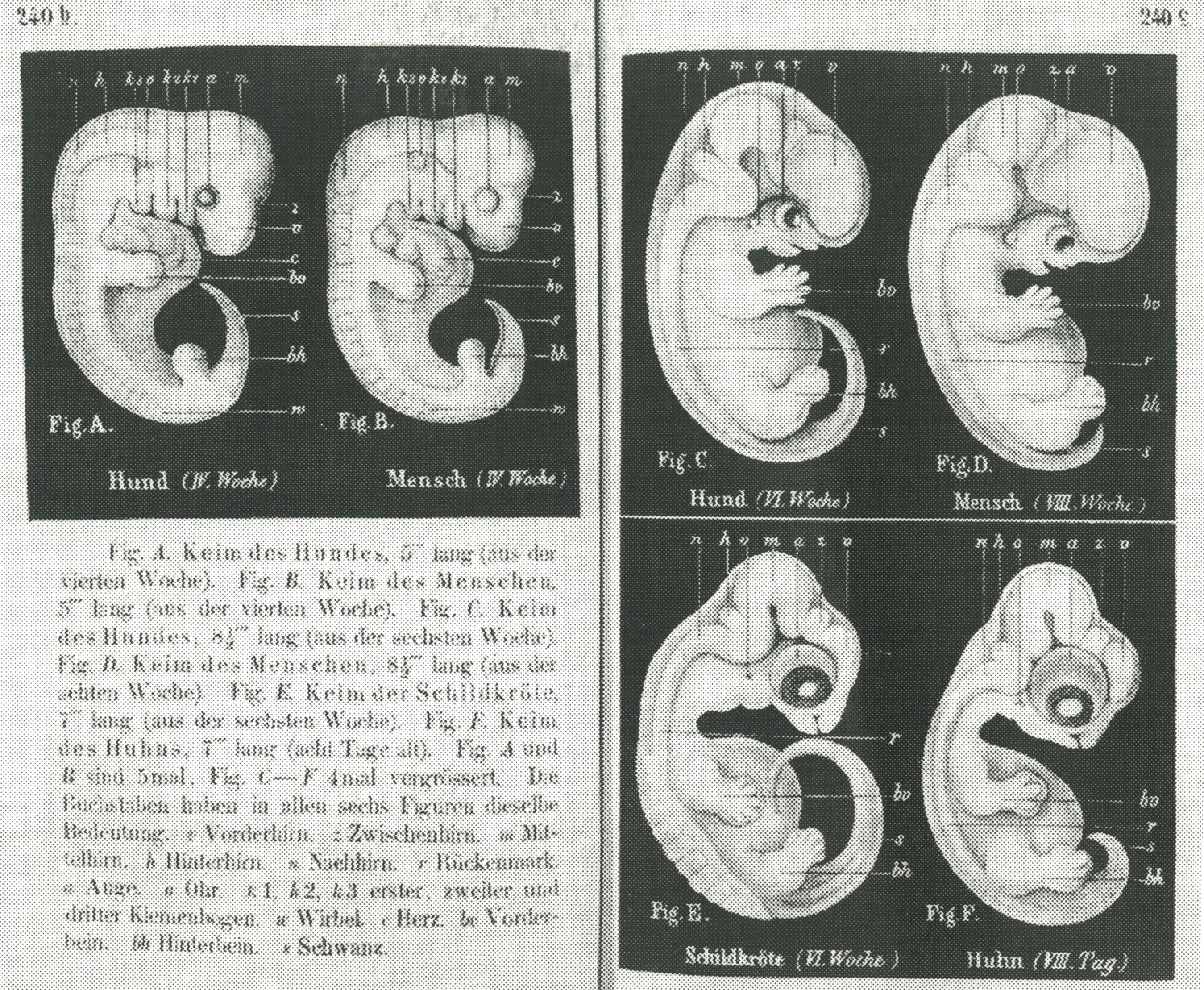 The pictures illustrate Ernst Haeckel's biogenetic law. In the beginning embryos of different species look remarkable similar, later different characteristics develop. The images initiated controversies and charges of fraud.